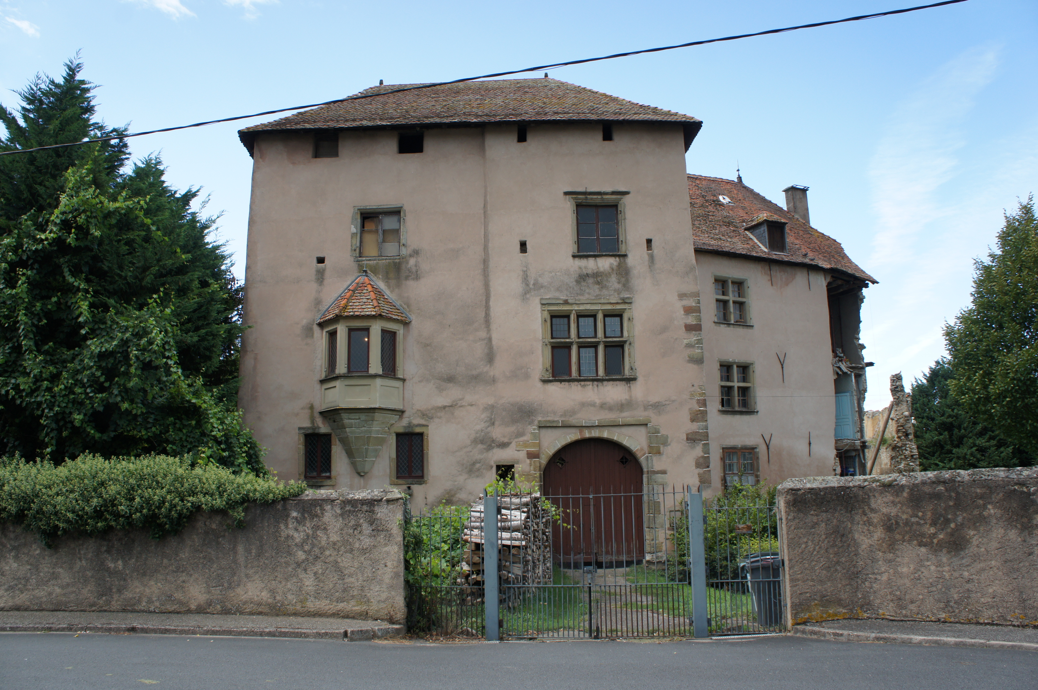 Castle of Réchicourt-le-Château, Lorraine, France.